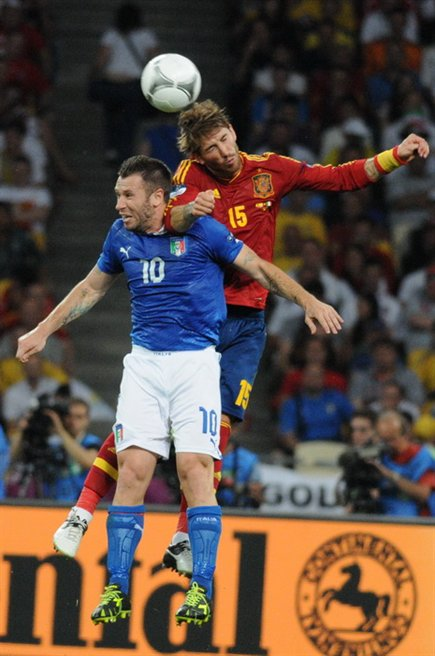 Antonio Cassano and Sergio Ramos at Euro 2012 final Spain-Italy